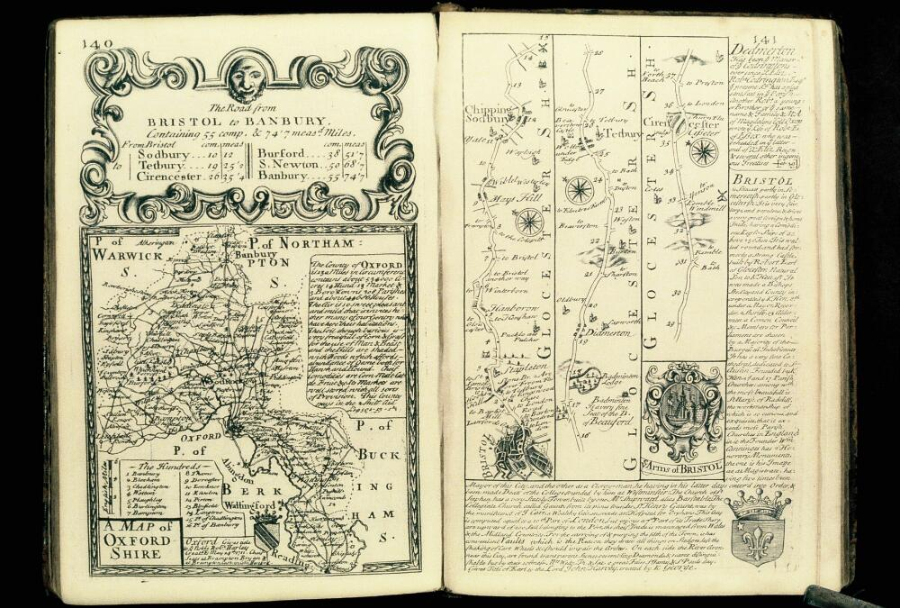 Text with map of Oxfordshire, and strip map of the road from Bristol to Cirencester, in John Owen, 'Britannia Depicta or Ogilby Improv'd ...'.